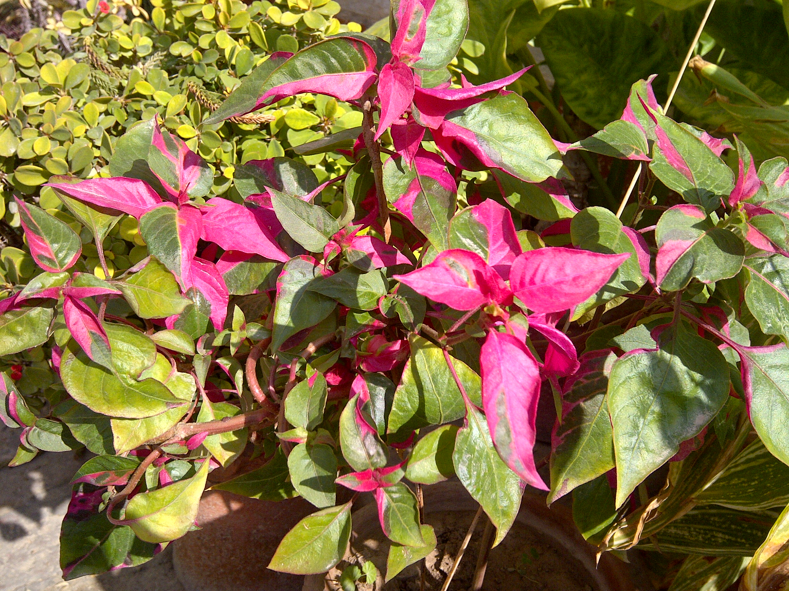 Alternanthera, party time also called St. Joseph's coat, at Kohat, Pakistan